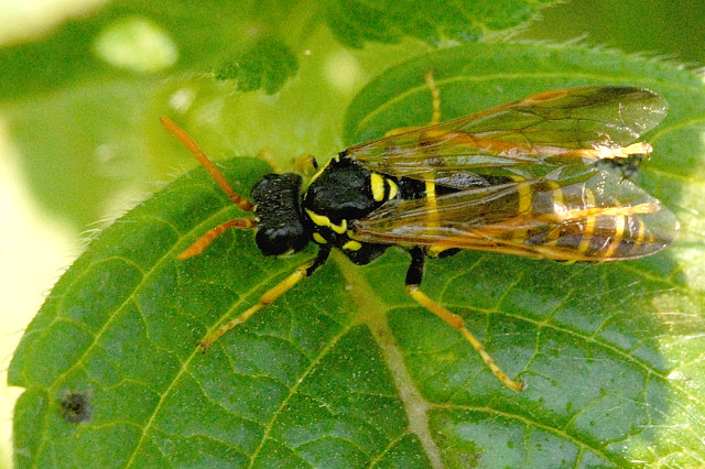 Tenthredo scrophulariae from Commanster, Belgian High Ardennes .